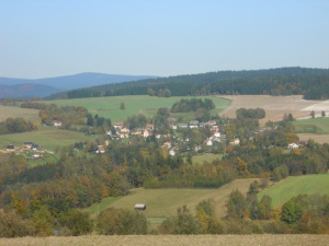 View from Kopanina